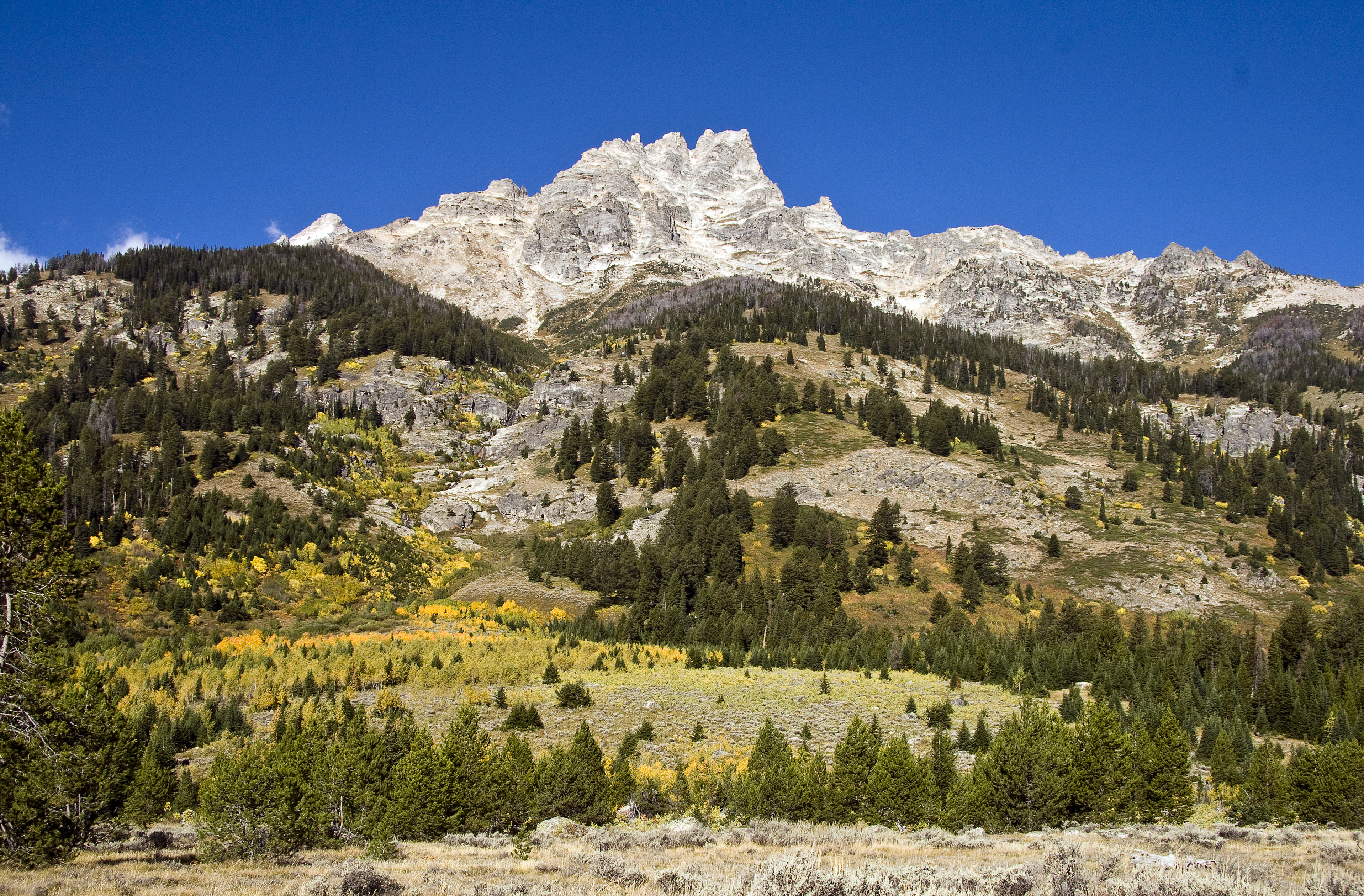 Teewinot Mountain from Lupine Meadows, Grand Teton National Park, Wyoming, USA